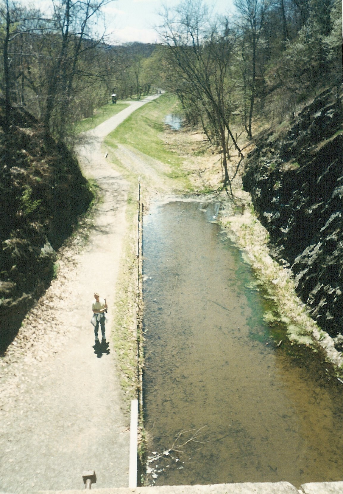 The Chesapeake and Ohio Canal from above the Paw Paw Tunnel in Maryland.